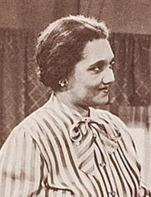 Poster for the 1948 film The Betrayal. This is the last film of Oscar Micheaux and all copies are considered lost. Basing this on the cast list and a poster for the film, this appears to be (from left) Alice B. Russell (Aunt Mary), Verlie Cowan (Linda Lee) and Leroy Collins (Martin Eden). The item has no copyright markings on it as can be seen in the link above. At lower left is Printed in USA.